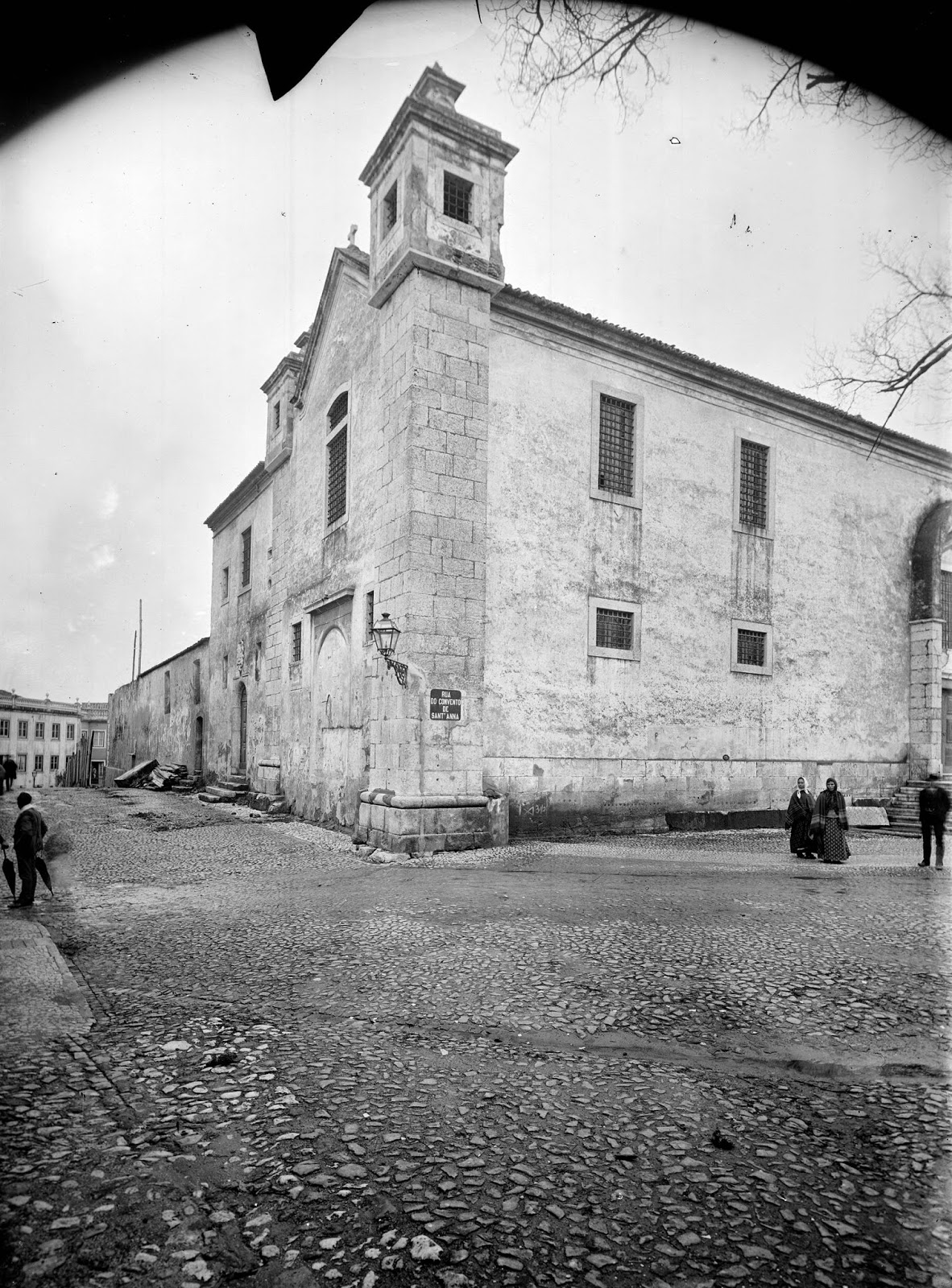 Photograph of the Convento de Sant'anna (Convent of Saint Anne) in Lisbon, Portugal. It was demolished in 1897.